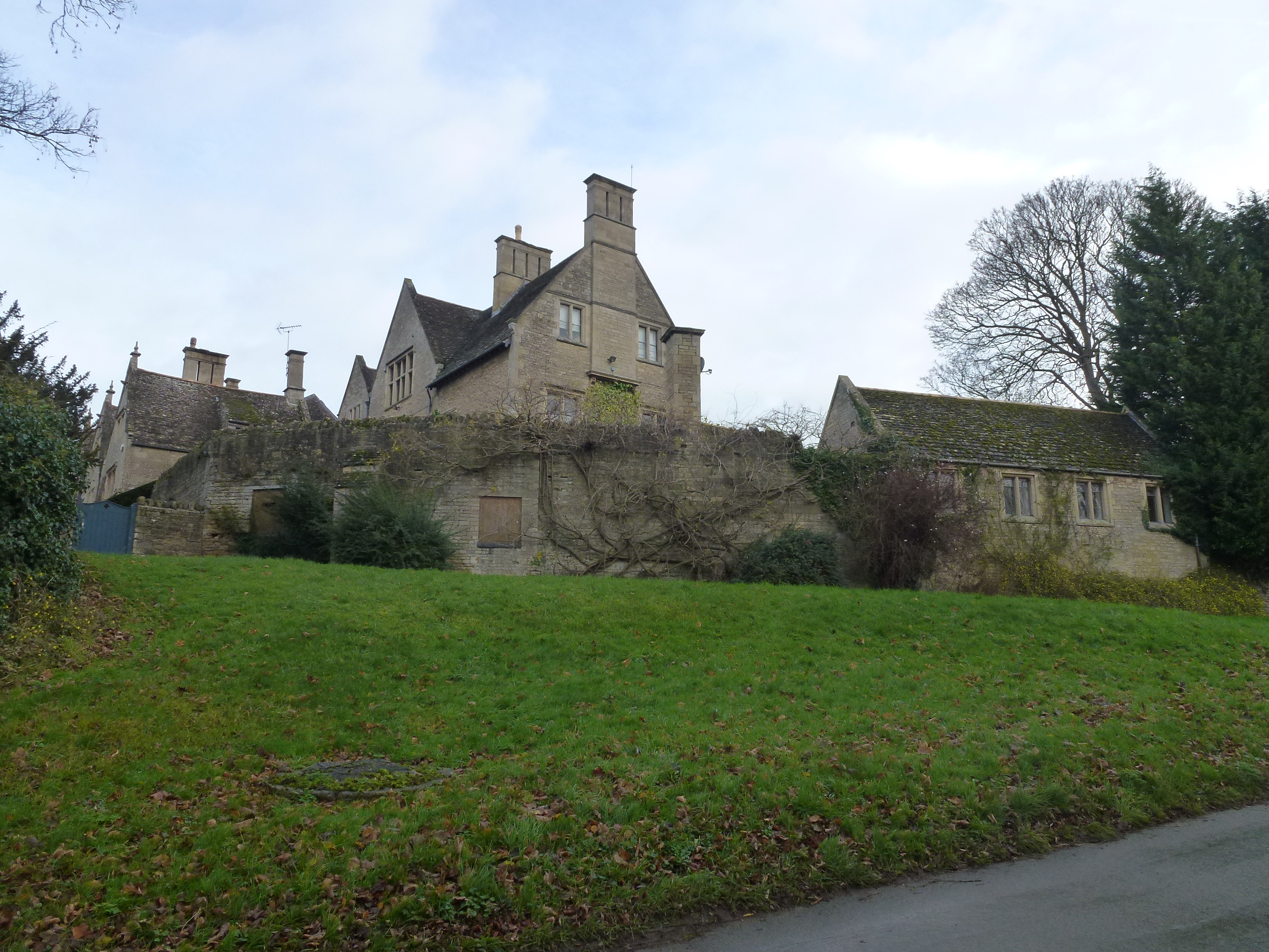 Barnwell Manor, Northamptonshire